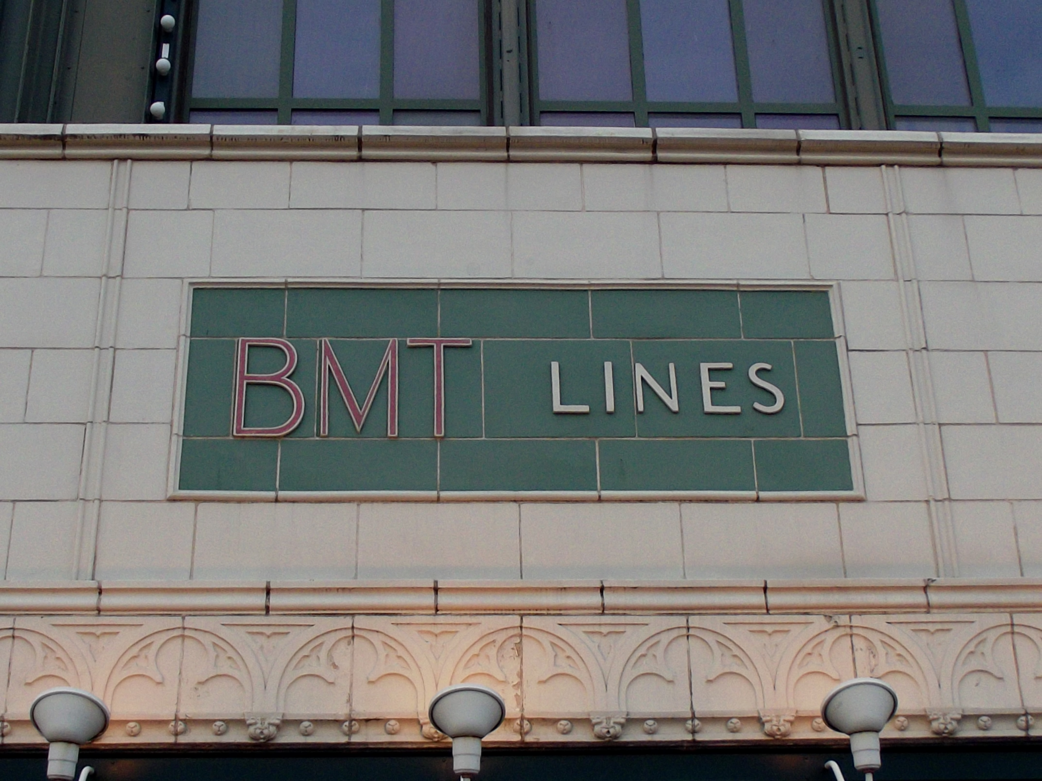 Stillwell Ave Station at the end of the D, F, N and Q lines in Coney Island.